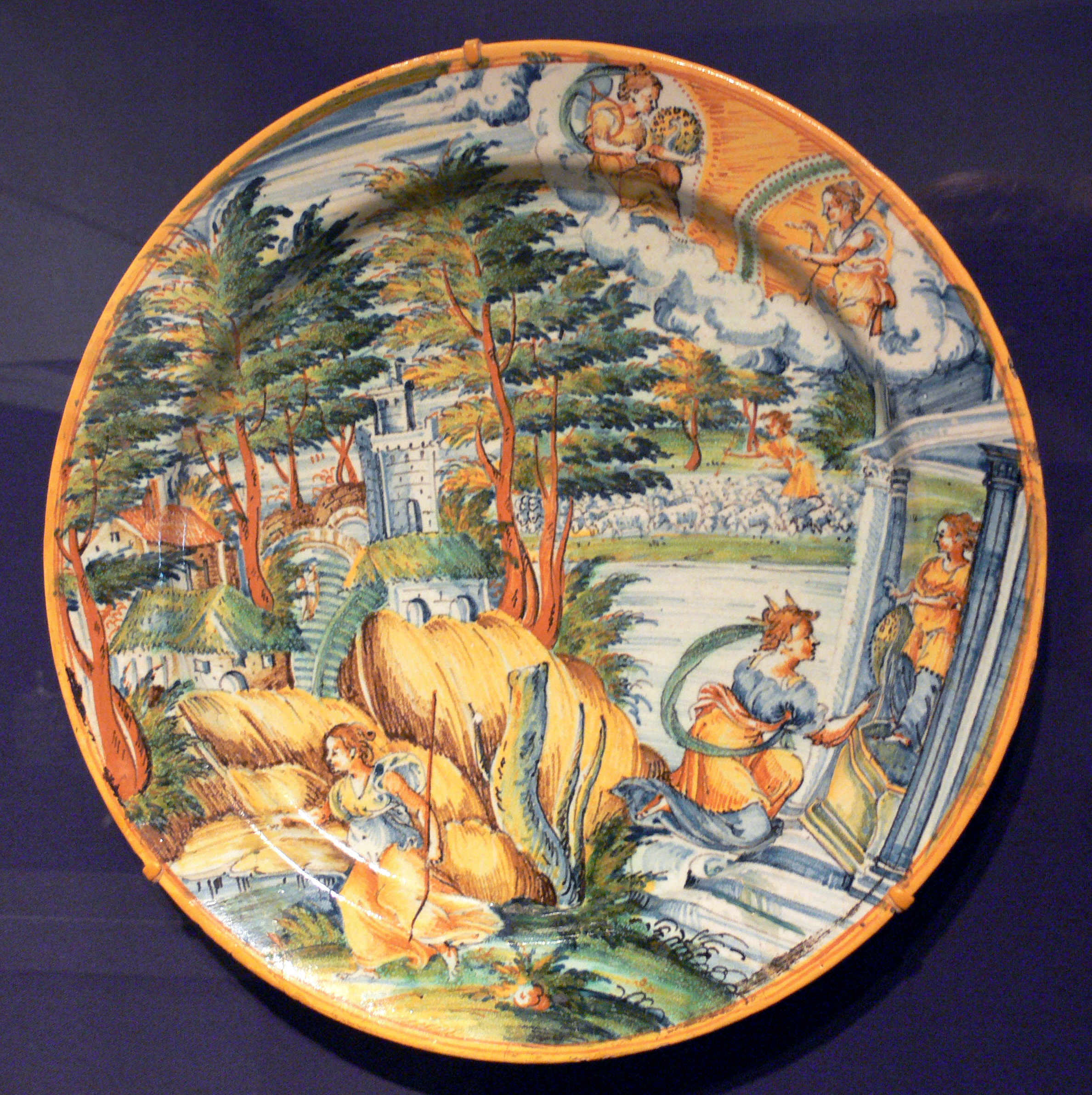 Charger, from Italy, Faenza, c. 1555; Diameter 43 cm; Medium: Tin-glazed earthenware Dallas s Museum of Art, Dallas Texas; gift of Sarah Dorsey Hudson; object number 1990.169